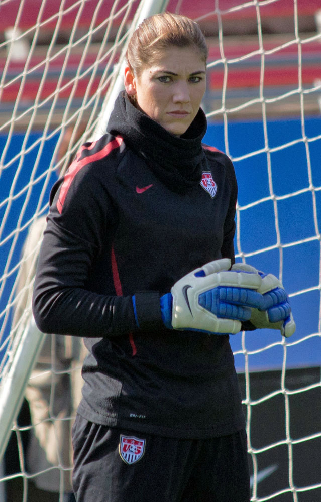 Hope Solo of the United States Women's National Soccer Team in Frisco, Texas.